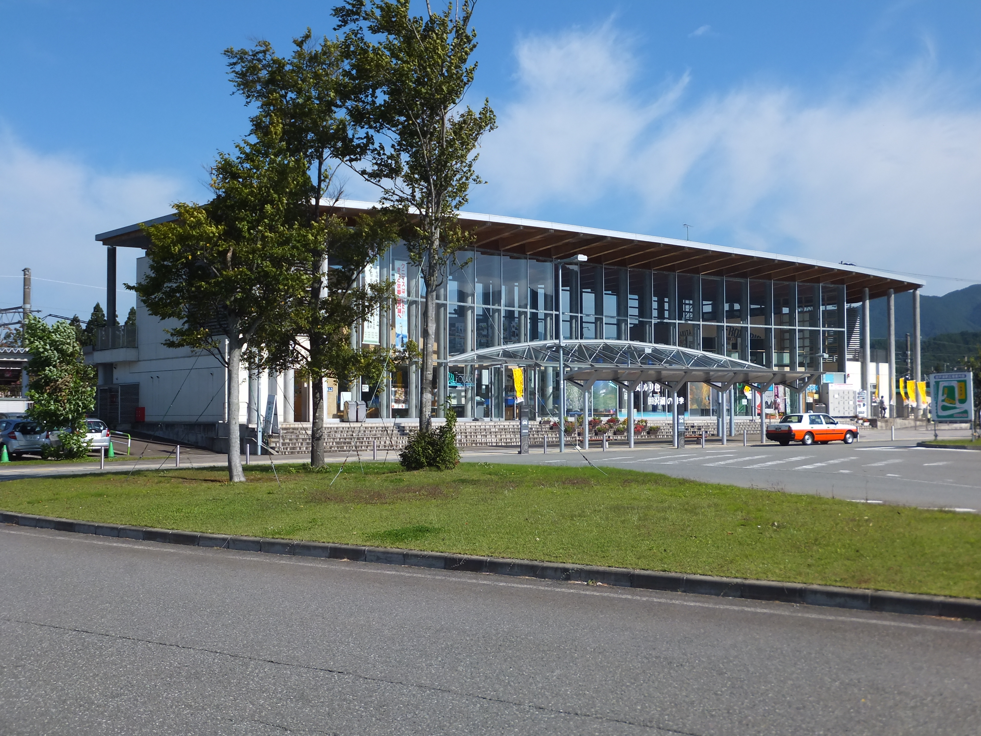 Tazawako Station on the Akita Shinkansen and Tazawako Line, located in Semboku, Akita, Japan